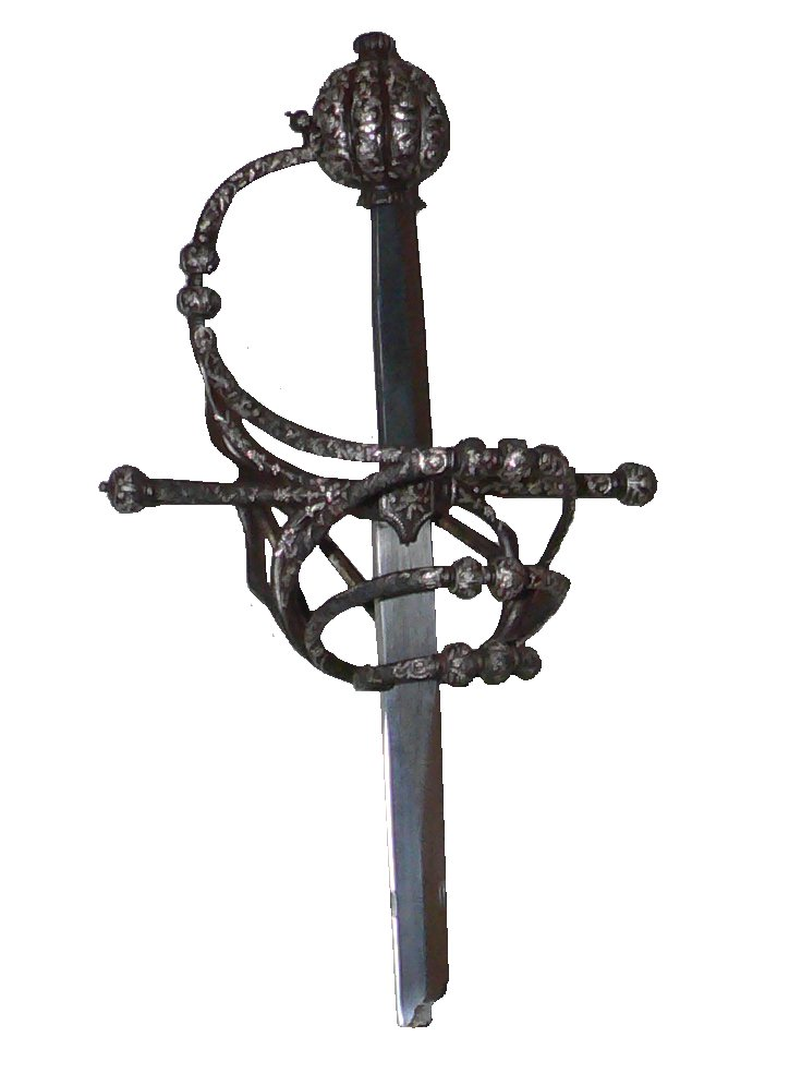 Silver damascened rapier guard, between 1580 and 1600. Fake blade.